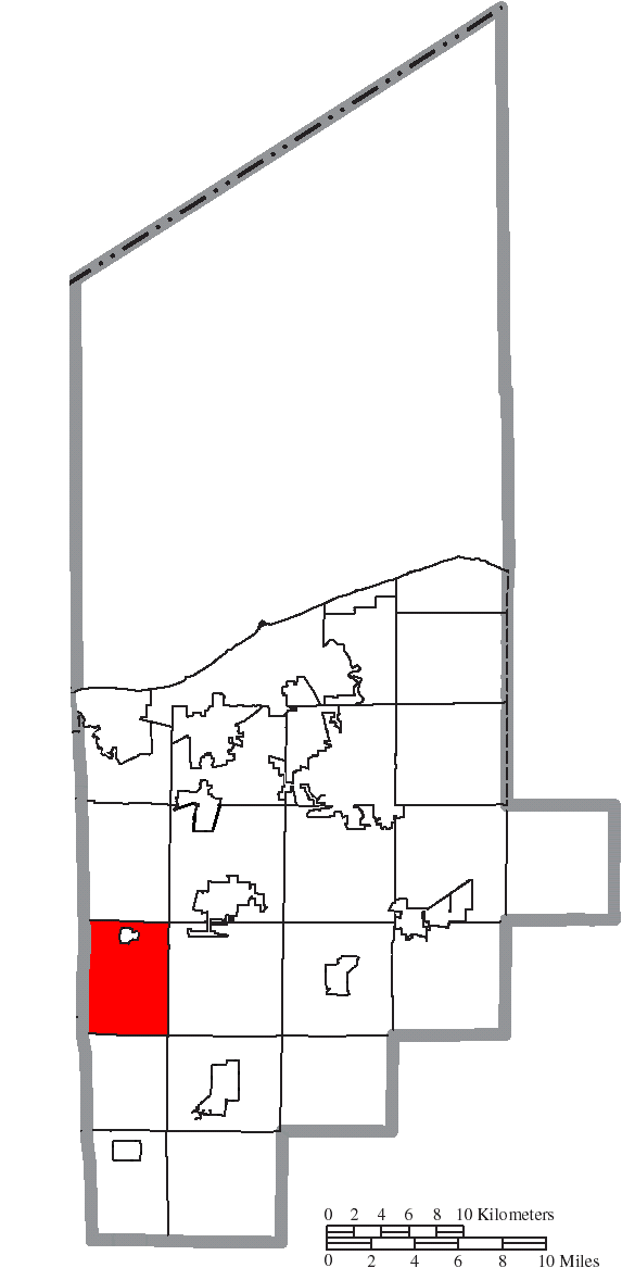 Map of the municipal and township boundaries of Lorain County, Ohio, United States, as of the 2000 census, with the location of Camden Township highlighted. Township borders are shown only in unincorporated areas in order to differentiate incorporated and unincorporated areas more clearly.